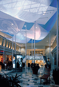 This photo of the Montgomery Ward’s mall entryway was taken after the late 1990s renovation.